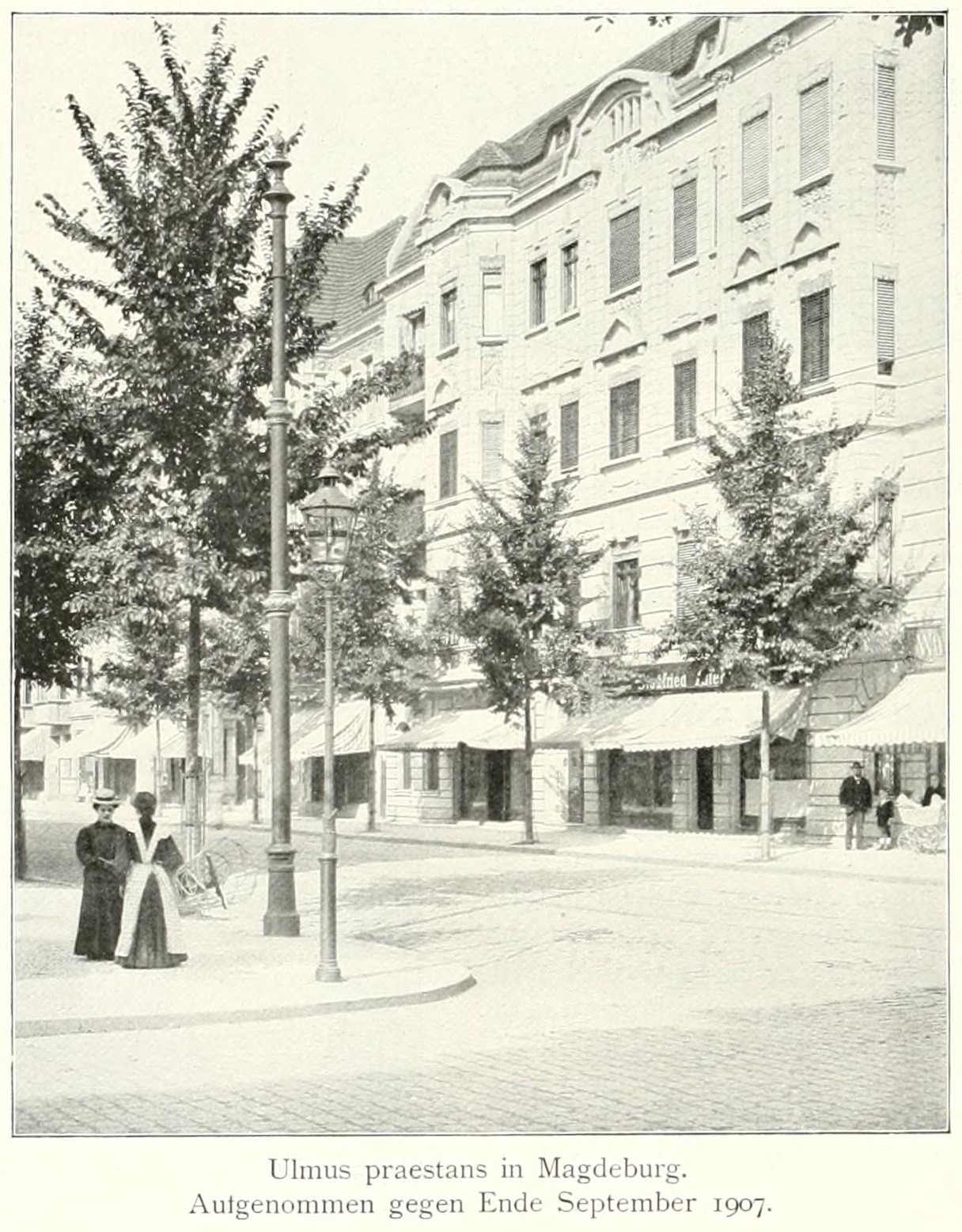 Ulmus × hollandica 'Superba', Magdeburg September 1907, though noted as Ulmus praestans